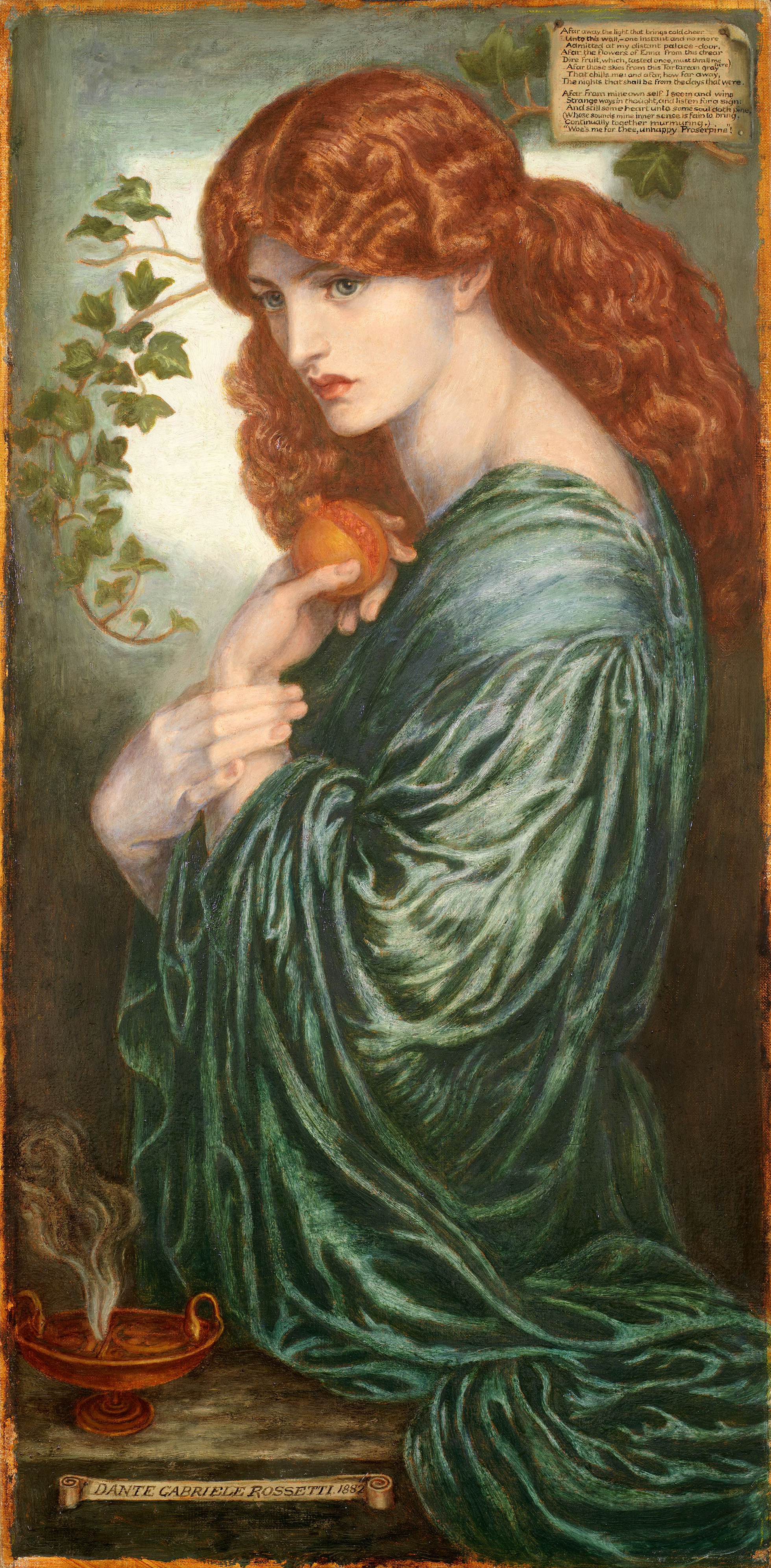 Eighth version of Rossetti's Proserpine at the Birmingham Museums and Art Gallery. From their website "This version was painted for L. R. Valpy Esq. as a copy, on a reduced scale, of the Tate version. It was finished at Birchington, just a few days before Rossetti's death."